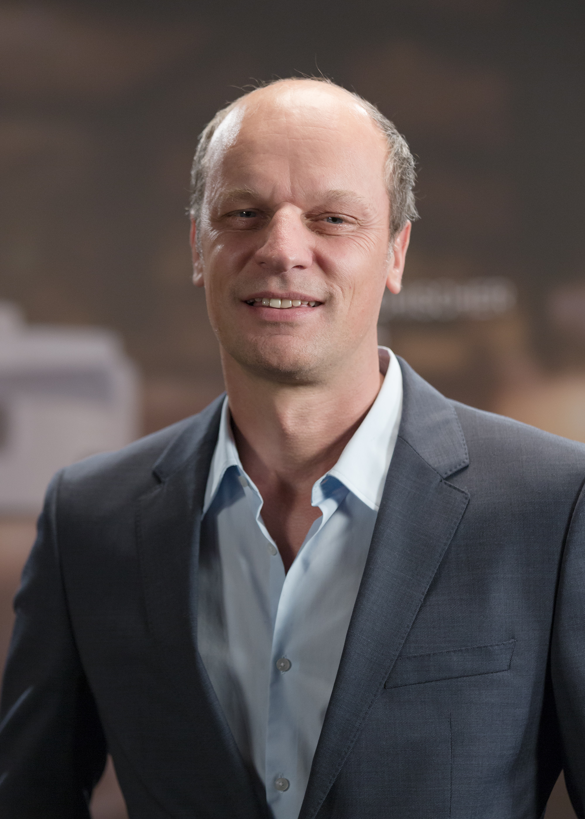 Dietmar Zuson, sound editor of Maikäfer flieg, at the Austrian Film Awards 2017 (Rathaus, Vienna,Austria).